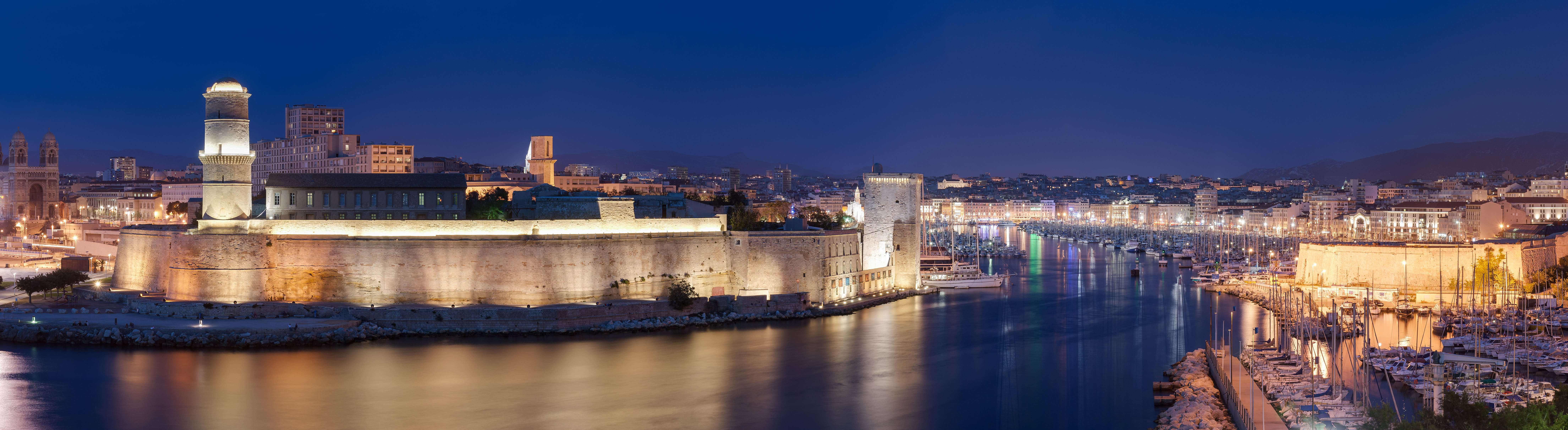 Old harbour of Marseille, at night, seen from the Pharo park. This picture is a mosaic of 4 landscape pictures taken at 59mm (35mm equiv.), f/8.0, 10 sec and ISO 100. Sitching was done with Hugin and Enblend.